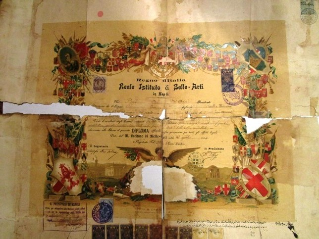 Diploma of Dragan Tapkov from Reale Istituto di belle arti di Napoli, 3 August 1904